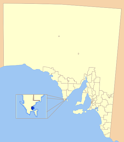 Modification of Astrokey44's original map found here: File:SA_LGA_blank.png Position of Coober pedy LGA